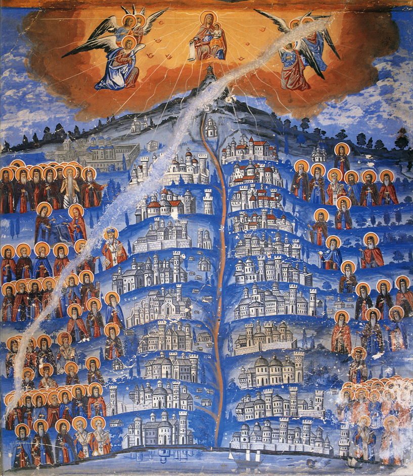 Saints of Mount Athos Fresco in Romanian Skete